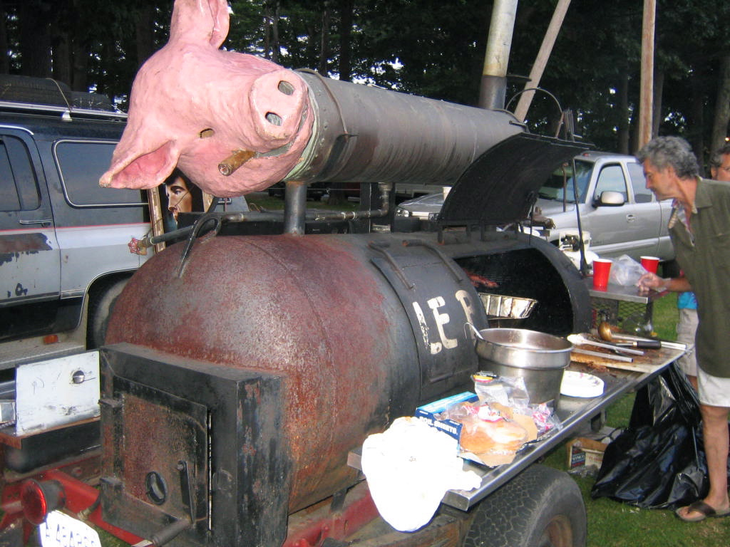 Local Culinary BBQ guru John St Laurent serves it up right from his tow along smoker. He's been in the BBQ biz as Uncle Billy's Barbecue in the area.BBQ supreme chef John St Laurent